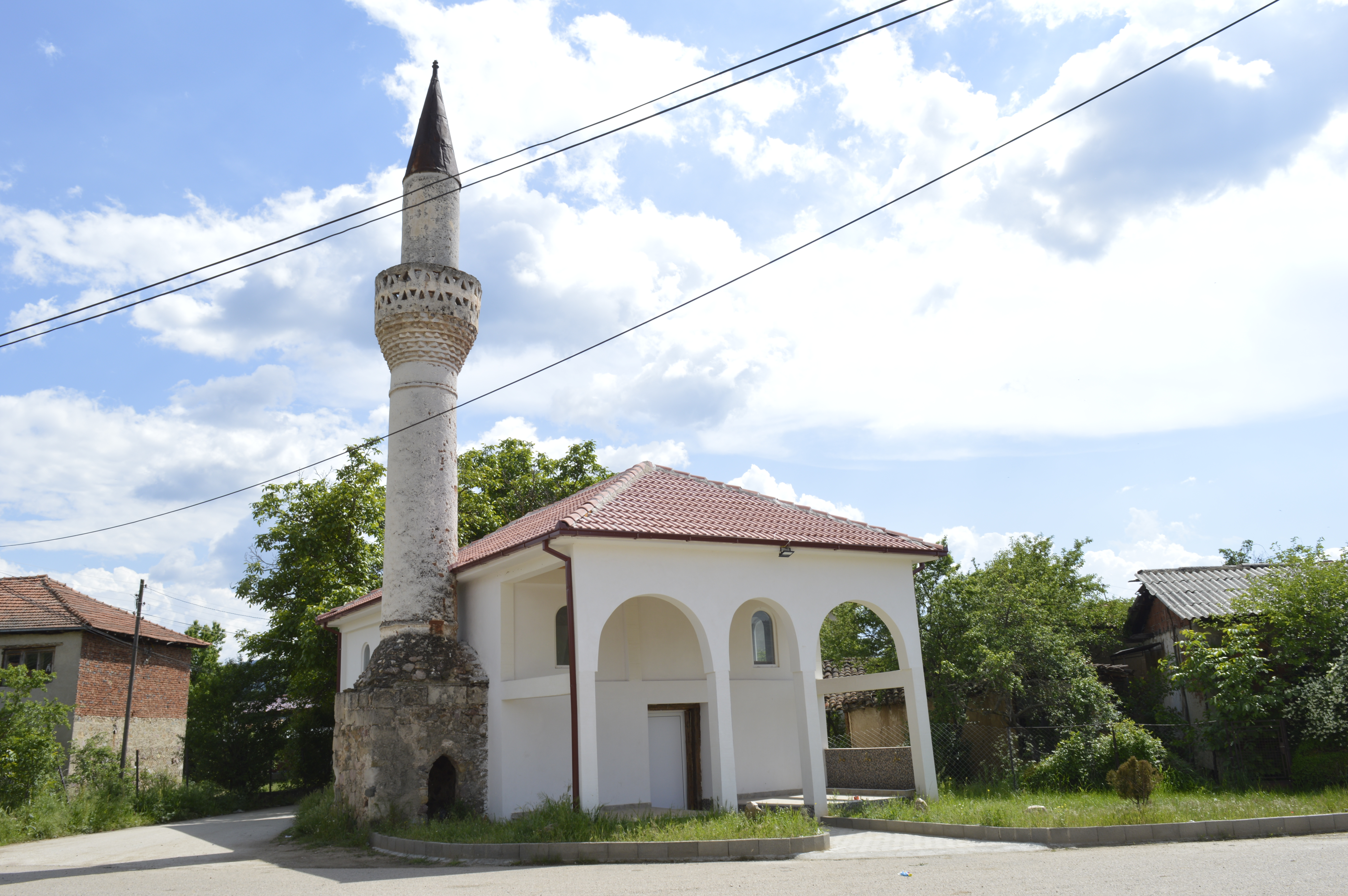 Local mosque in the village Trabotivište